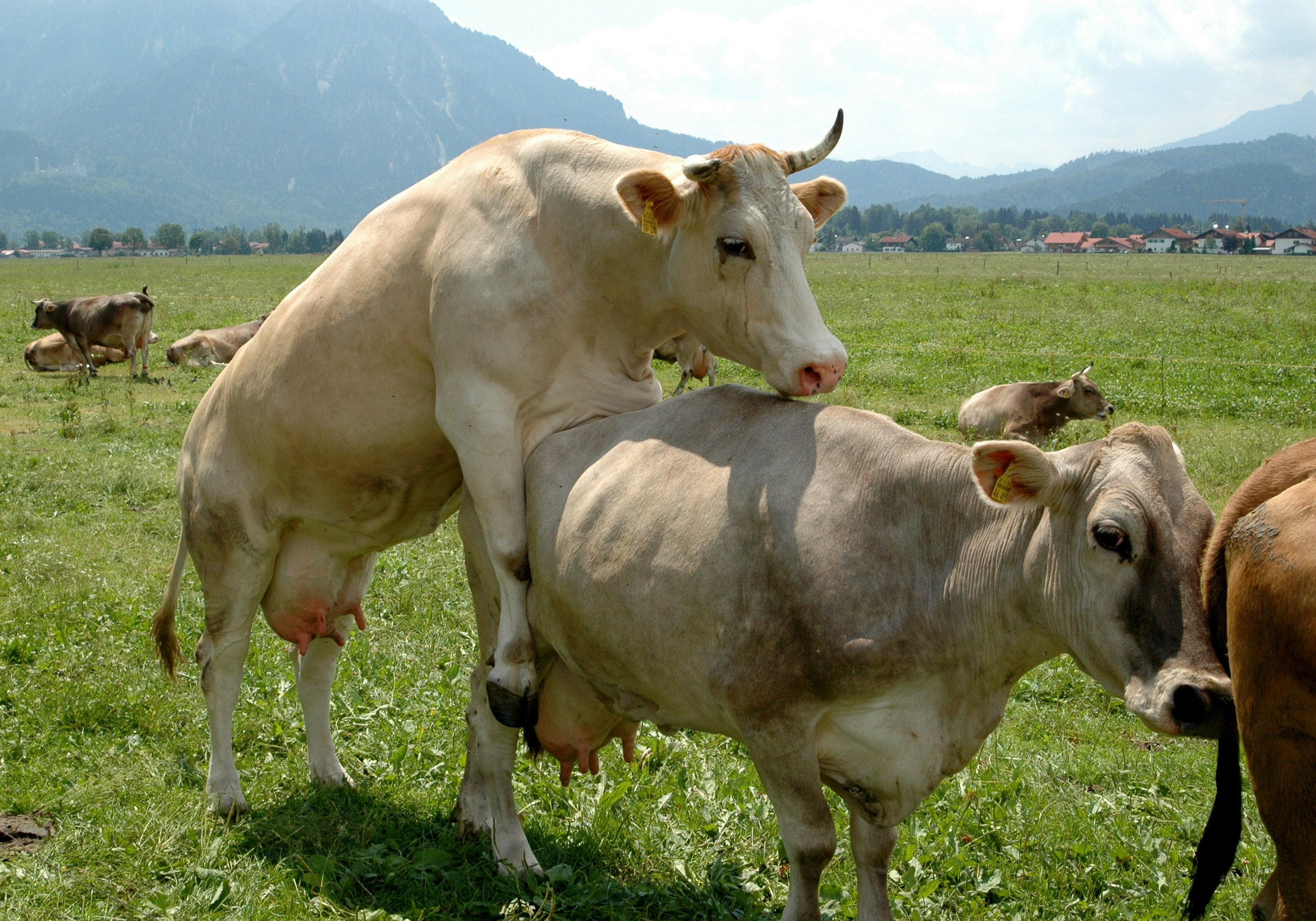 No cows where harmed during this shoot, all were long past the age of innocence and modeled voluntarily, building portfolio.